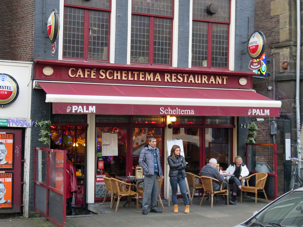 Cafe Scheltema at Nieuwezijds Voorburgwal 242 in Amsterdam, established in 1908 and until the 1970s especially popular by journalists.